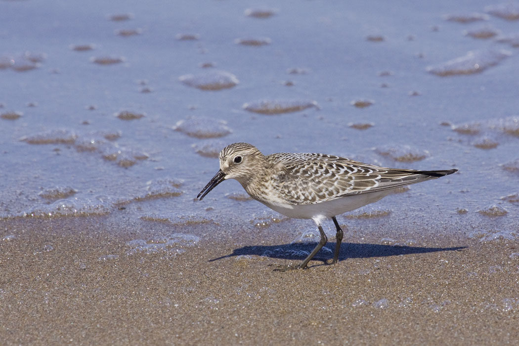 Morro Bay Sand Spit, Morro Bay, CA